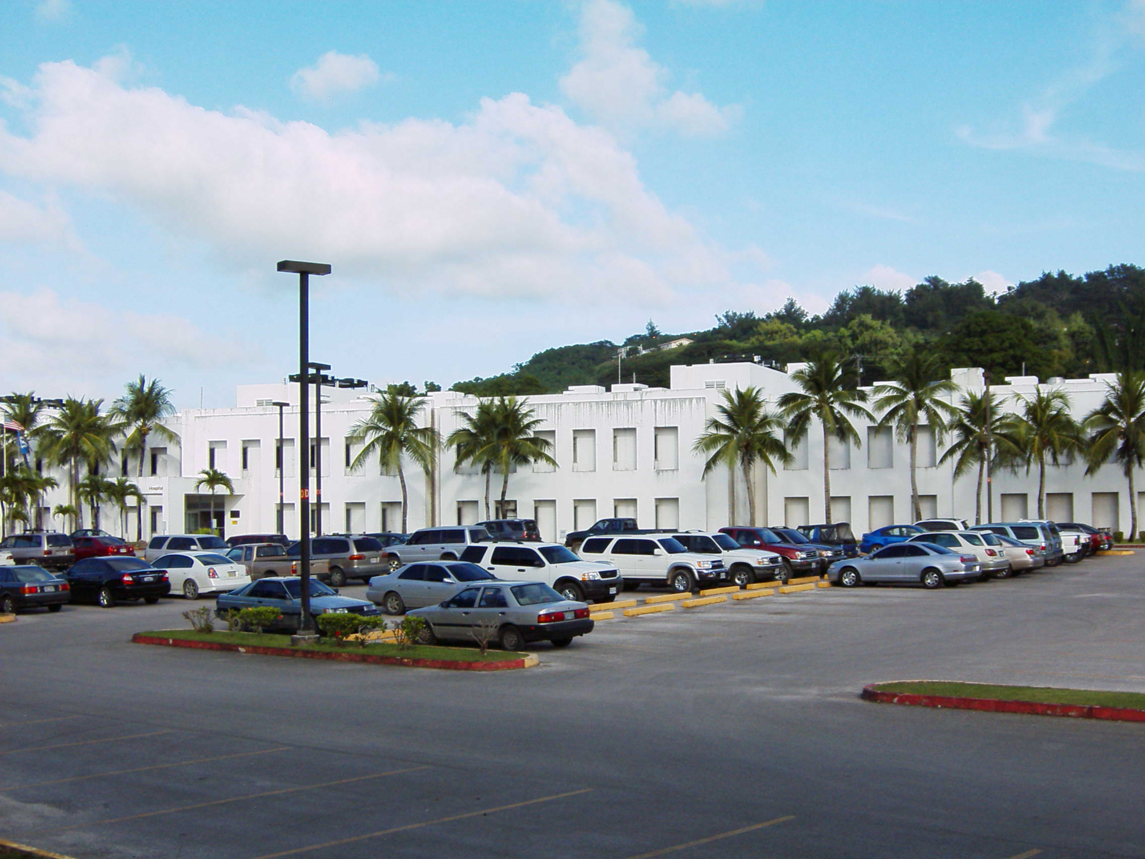 Commonwealth Health Center, Saipan, CNMI.